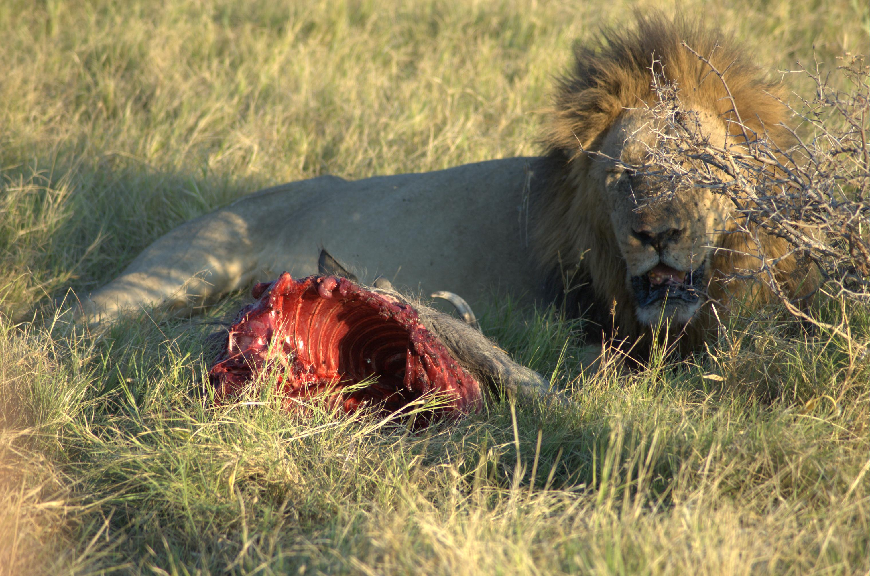 A lion and what's left of his warthog victim, Pumbaa. Picture taken in Botswana, June 2005. The original in Nikon's "raw" format is available under a different license. пан Бостон-Київський